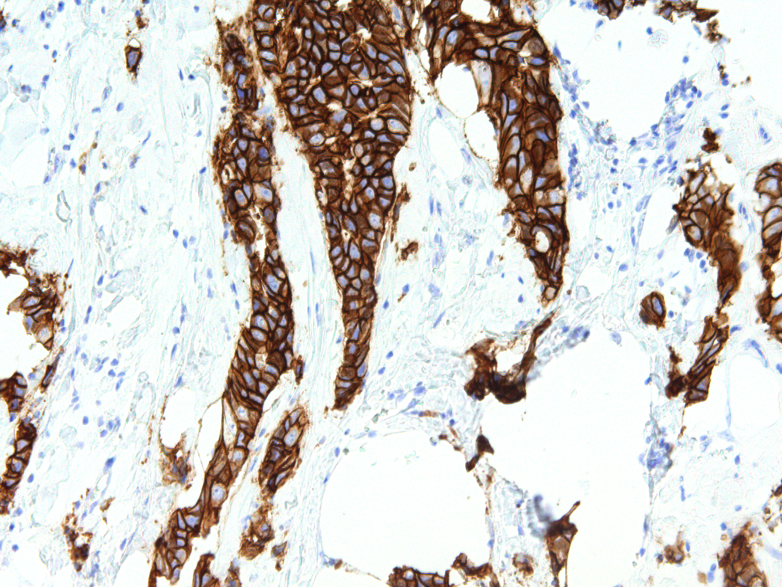 Her 2 staining on patient breast cancer tissue identified as stage 3